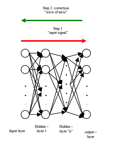 This is an schematic view of the back-propagation algorithm